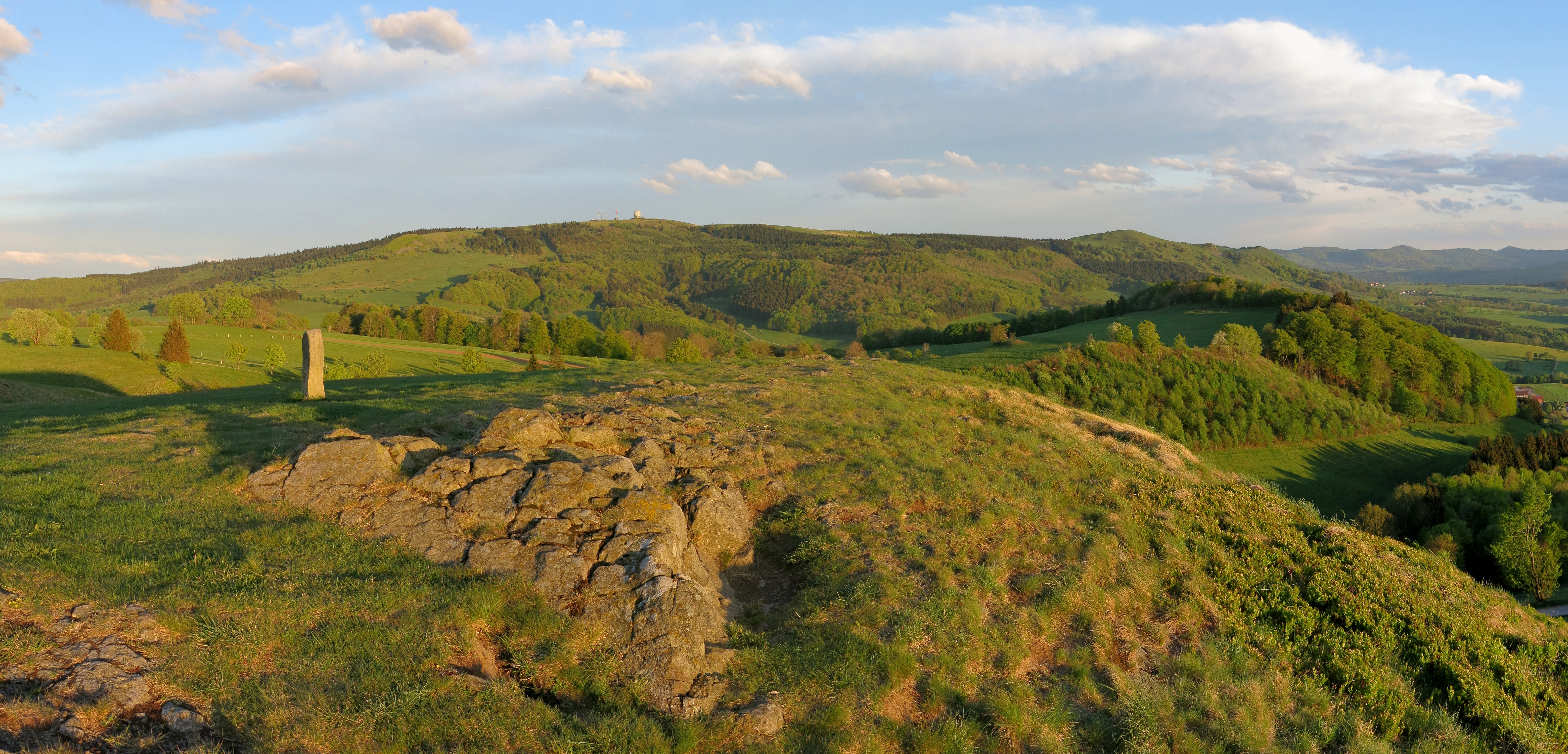 View from the summit of the Weiheberg southward the Wasserkuppe in the Rhön Biosphere Reserve